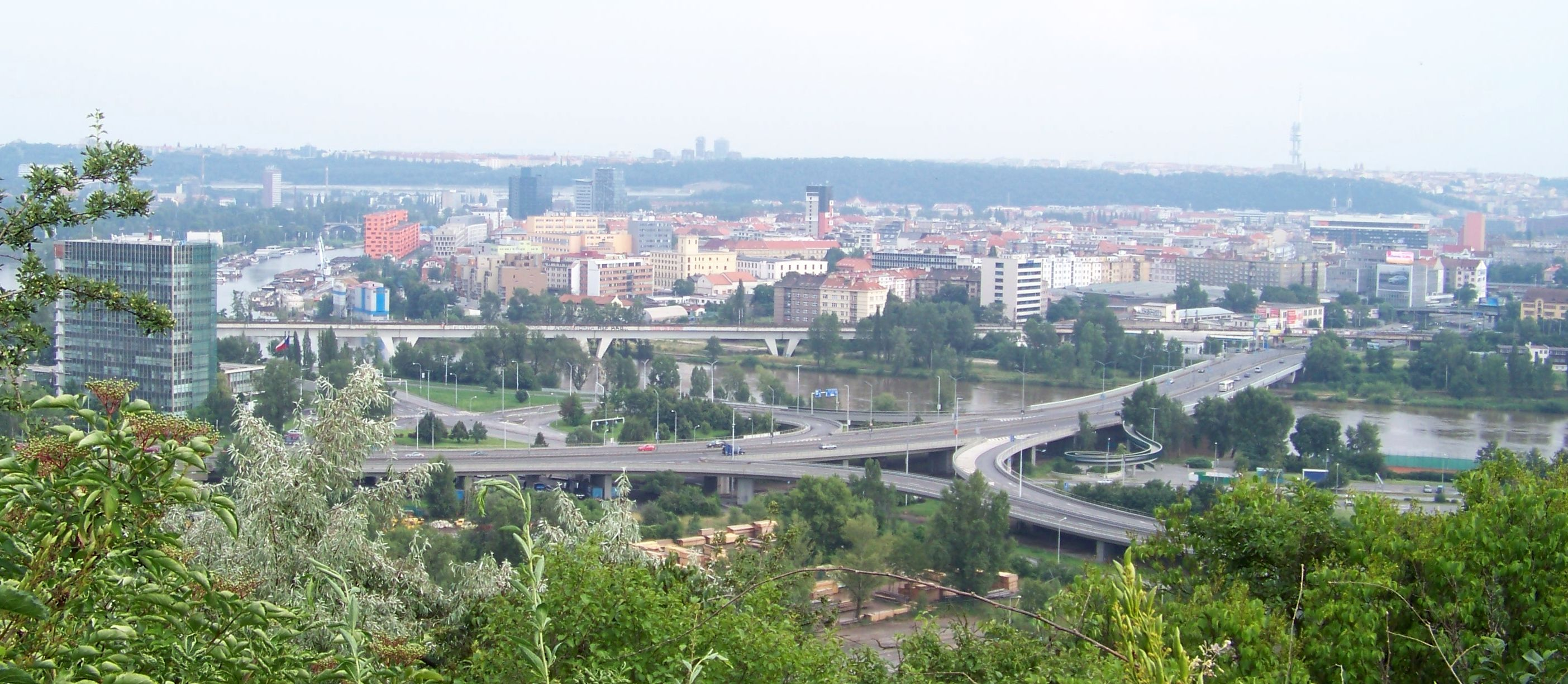 Libeň and Holešovice, Prague, the Czech Republic. - Google Maps - Google Earth